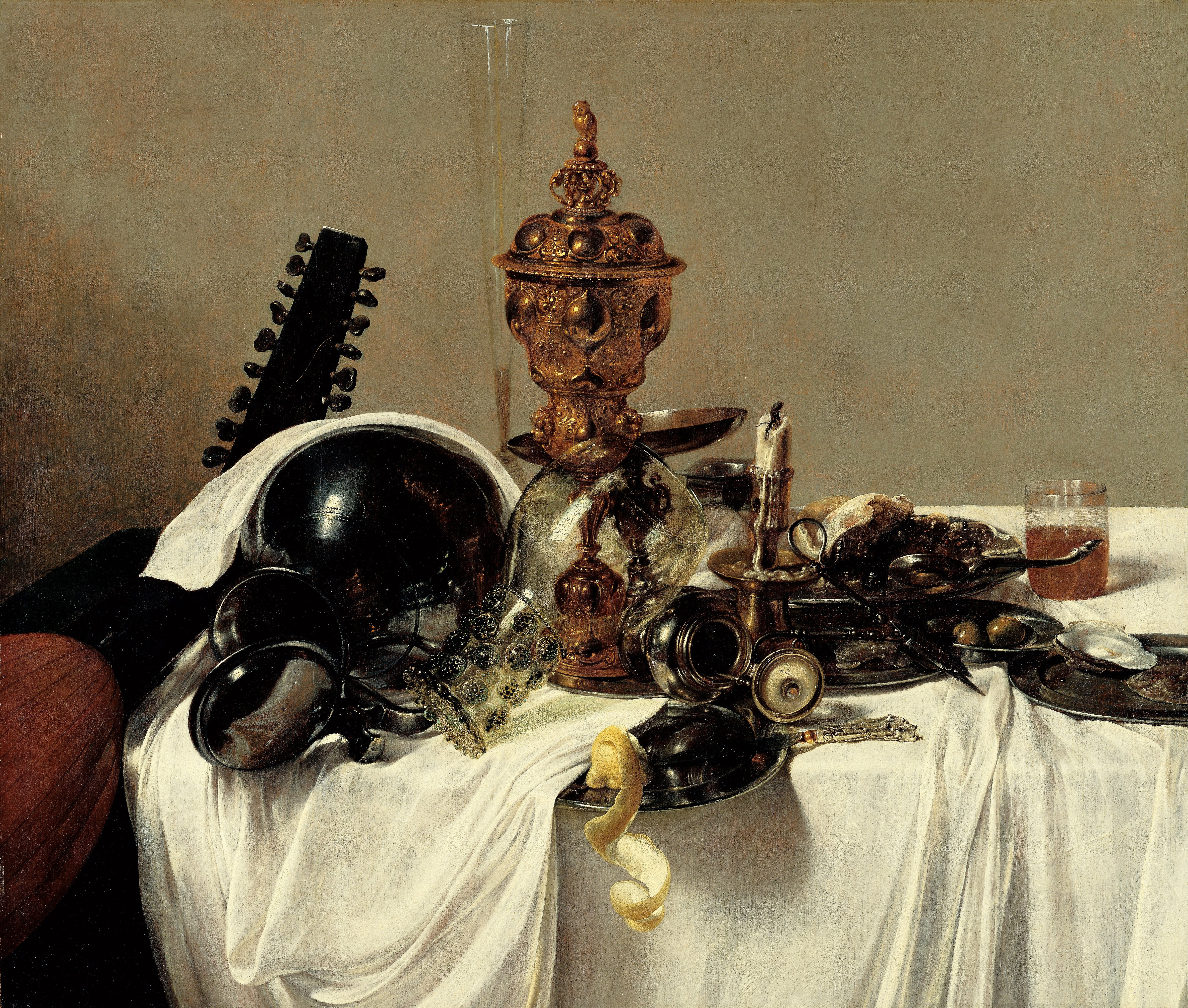 Banquet Piece. circa 1635. Jan Jansz. den Uyl. Oil on cradled panel. 31 5/16 x 36 7/8 in. (79.5 x 93.7 cm). North Carolina Museum of Art via Google Cultural Institute.